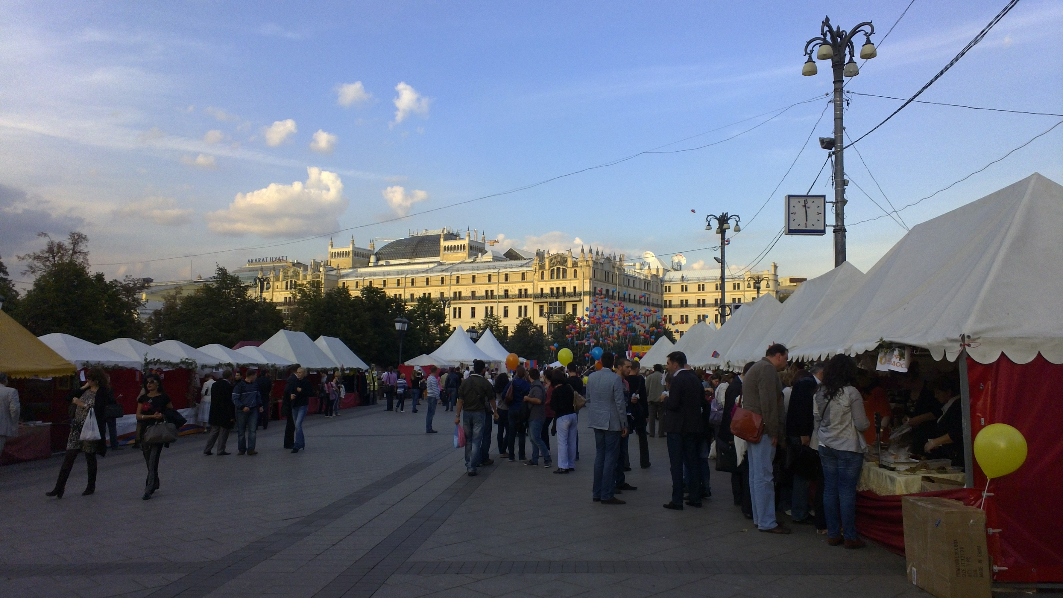 «Golden pomergranate» («Voske nur» or «Zolotoy granat») Armenian annual fair in Moscow . September 21 2012, Revolution square.